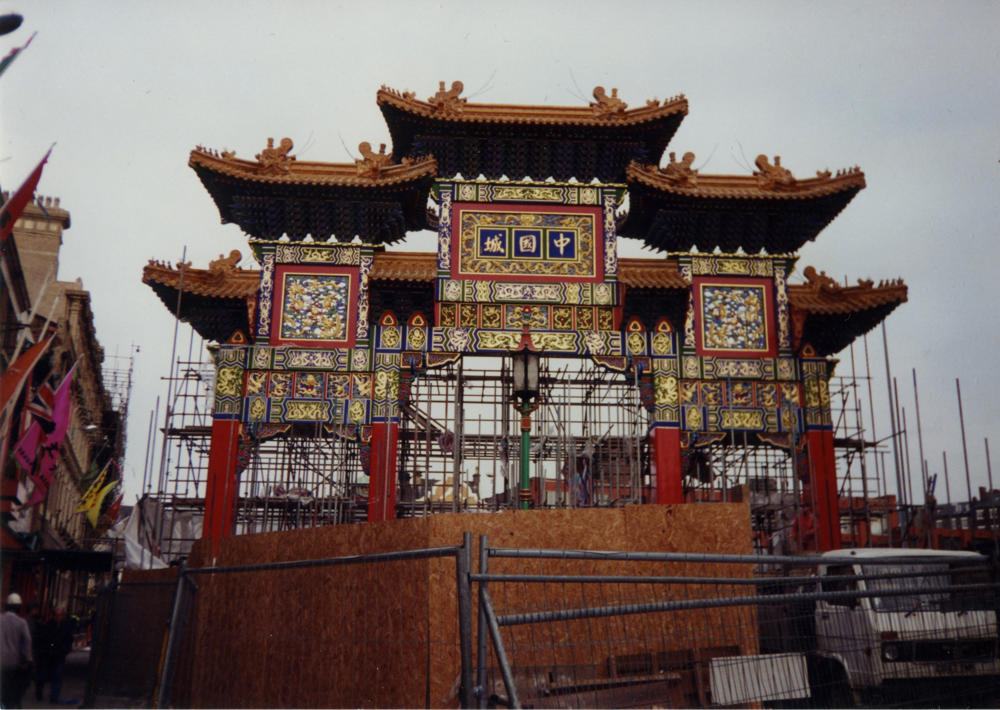 Chinese arch in Chinatown, Liverpool, during final stages of construction, Photo taken in 2000 using 35mm film camera. Digitally scanned on 1 November 2009.